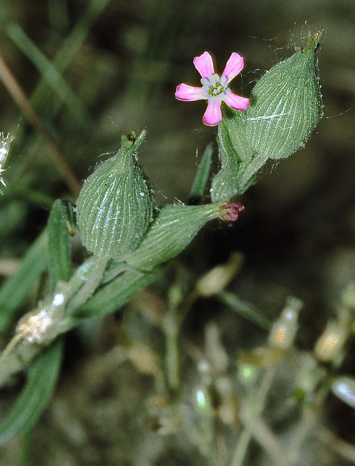 photographed by myself in 1990, near Mainz, Germany